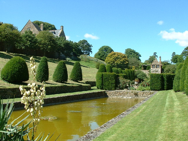 Mapperton House & Gardens.